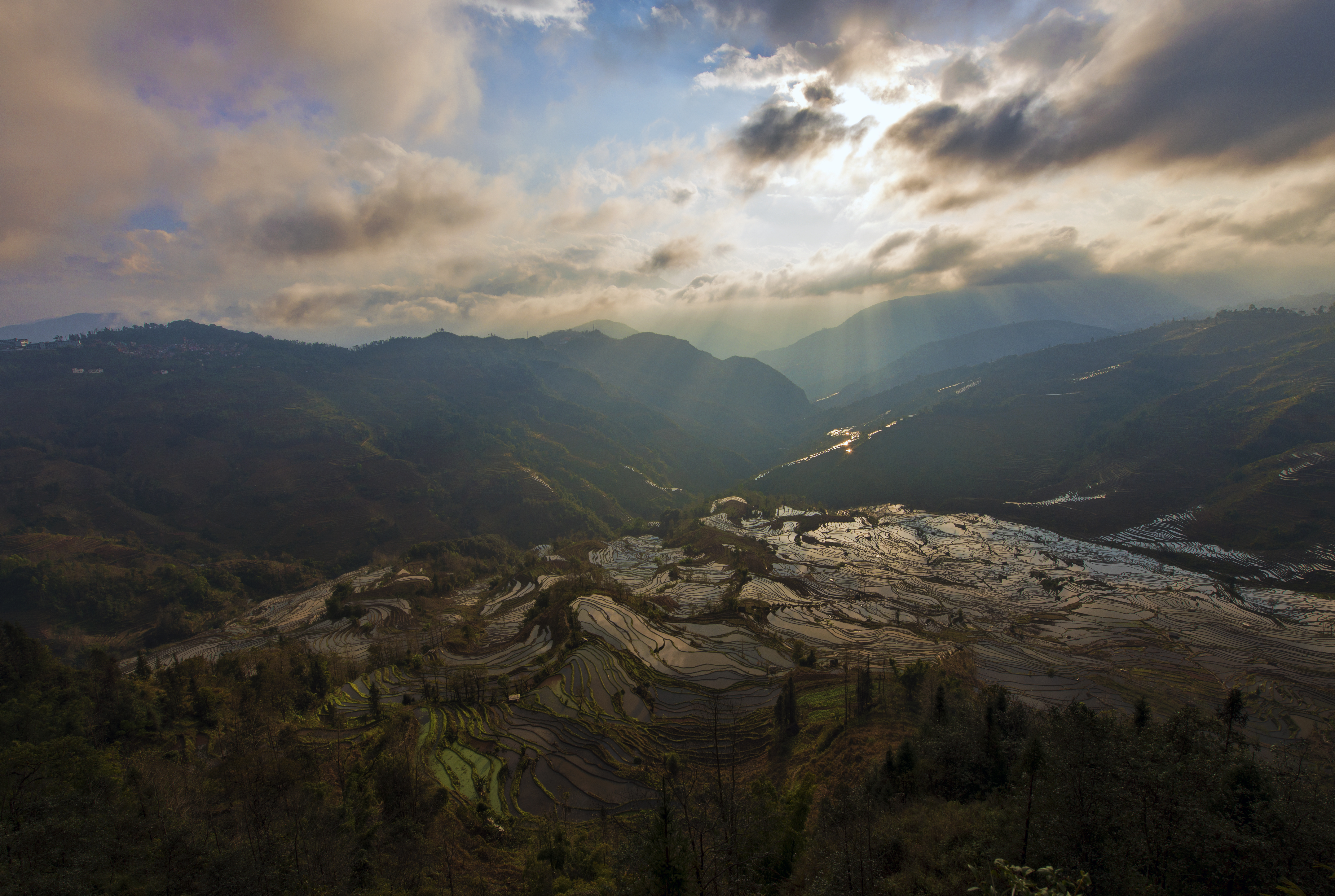 yuanyang rice terrace yunnan china 2012 laohuzui sunset 元阳老虎嘴